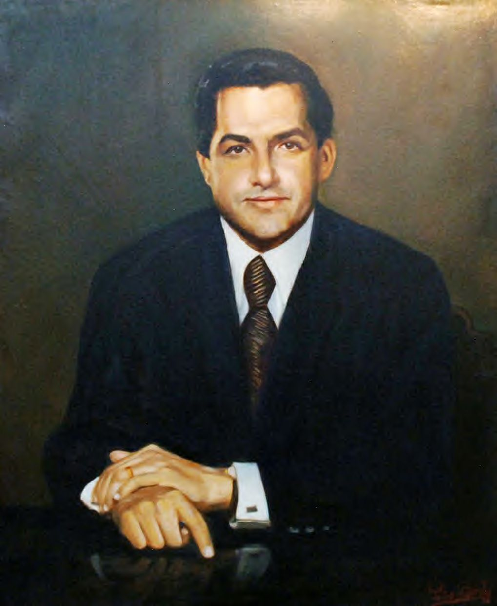 Painting of the Honorable Rafael Hernández Colón, former Secretary of State and Governor of Puerto Rico.